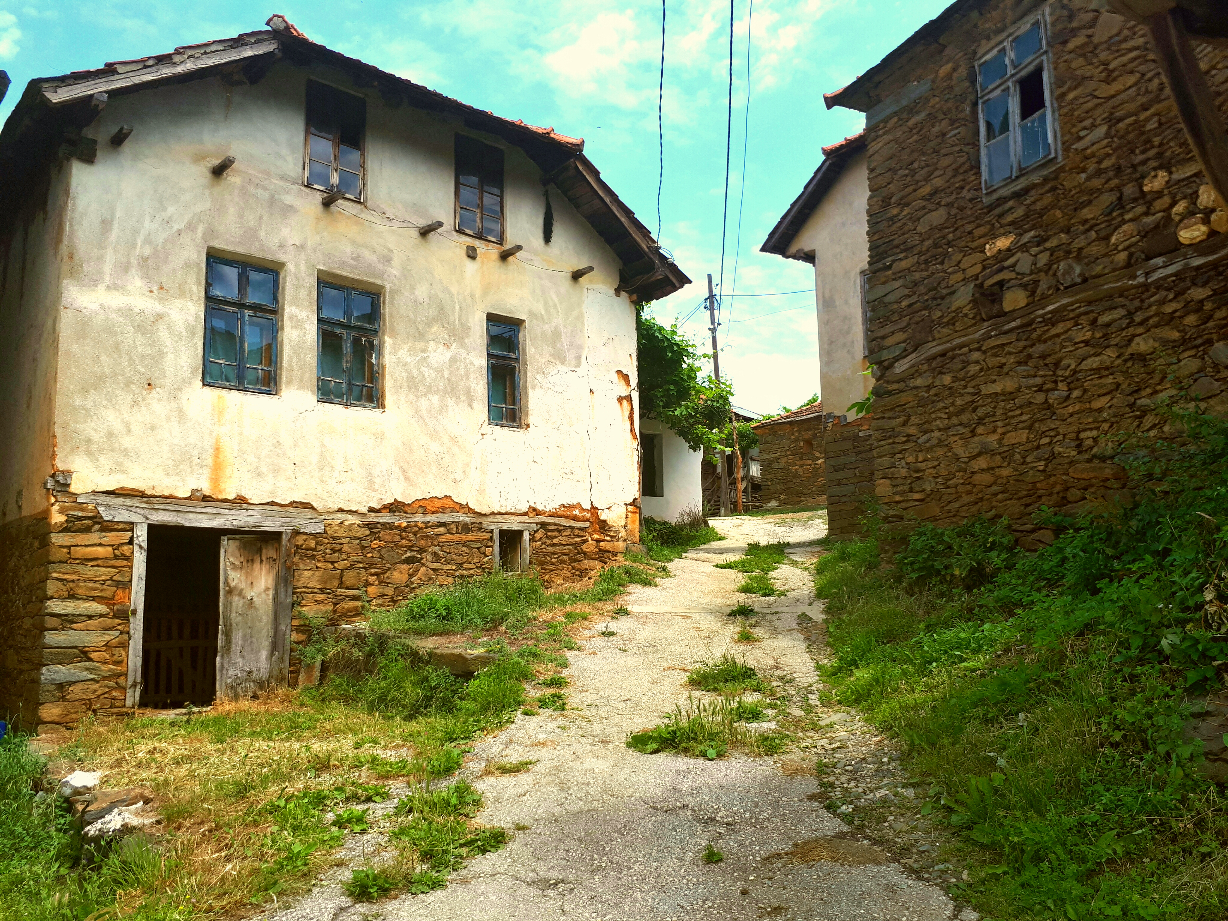 View of the village Inče